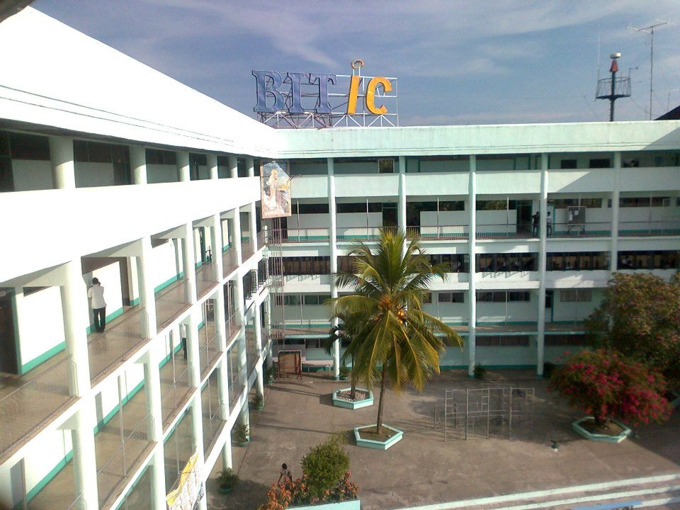 A picture taken at the main campus